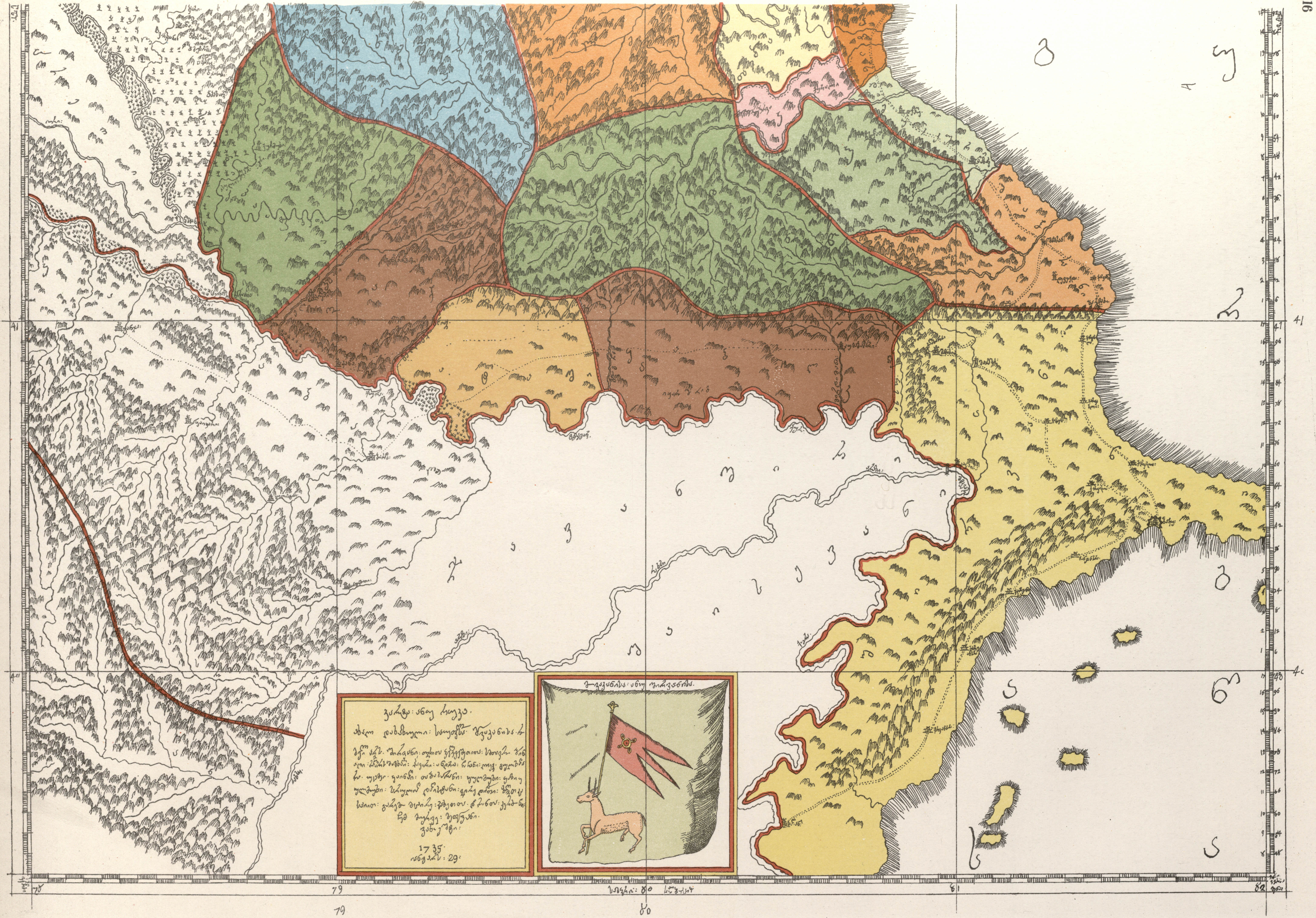 Map of Georgia by Prince Vakhushti Bagrationi